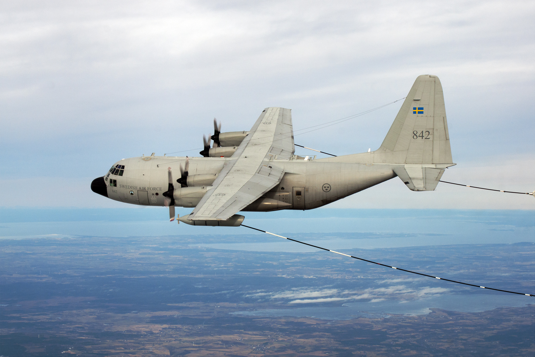 TP 84 Hercules of the Swedish Air Force